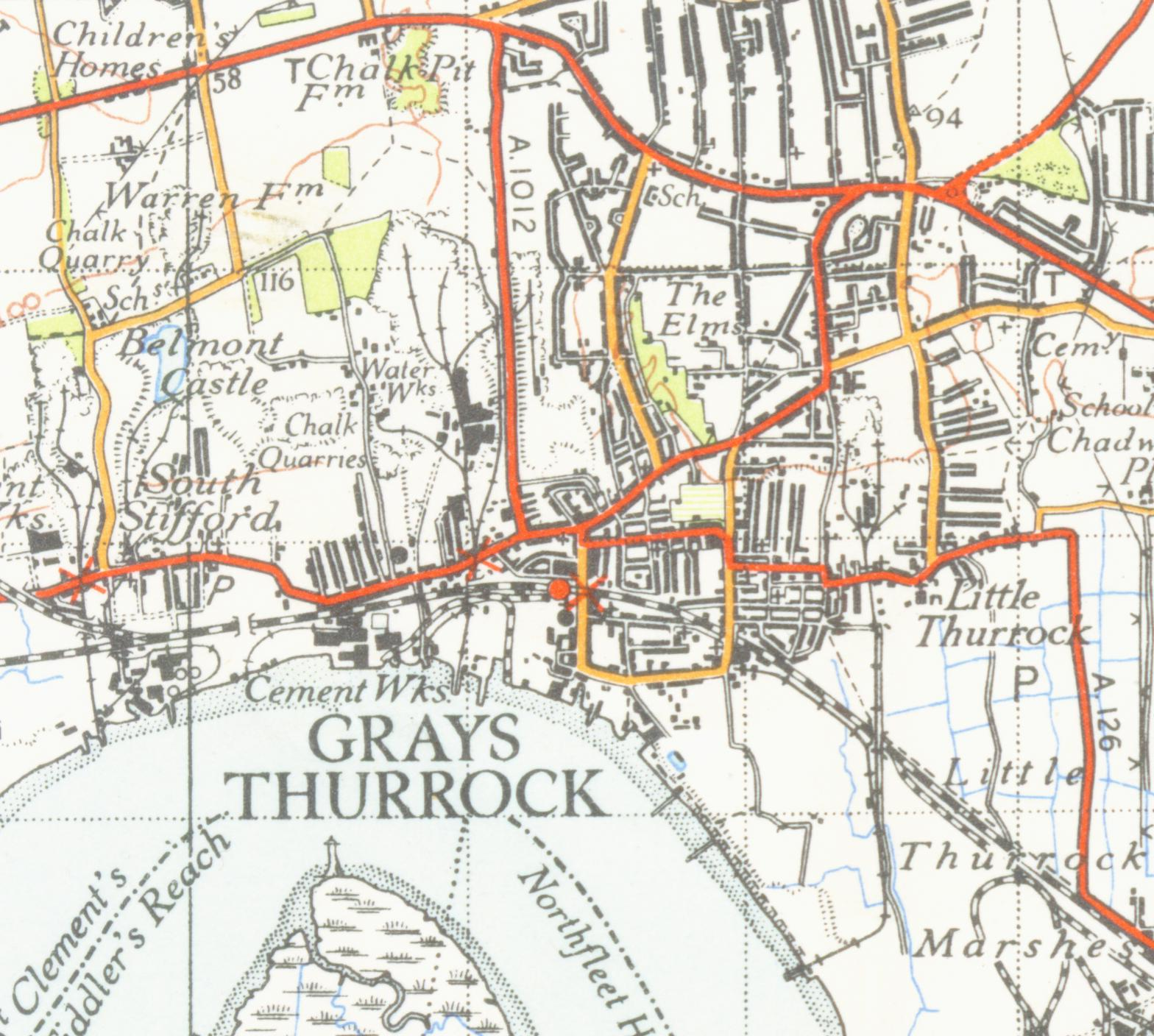 map of Grays 1 inch to the mile scale scanned at 600 DPI